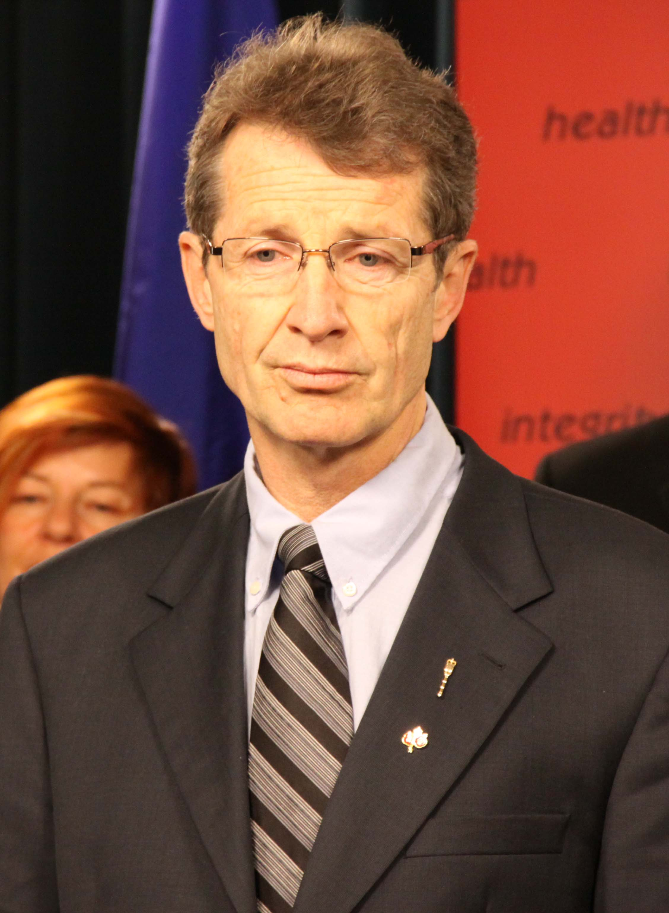 Alberta Liberal leader David Swann reacts to Calgary MLA Dave Taylor's resignation from the Liberal caucus on April 12, 2010.